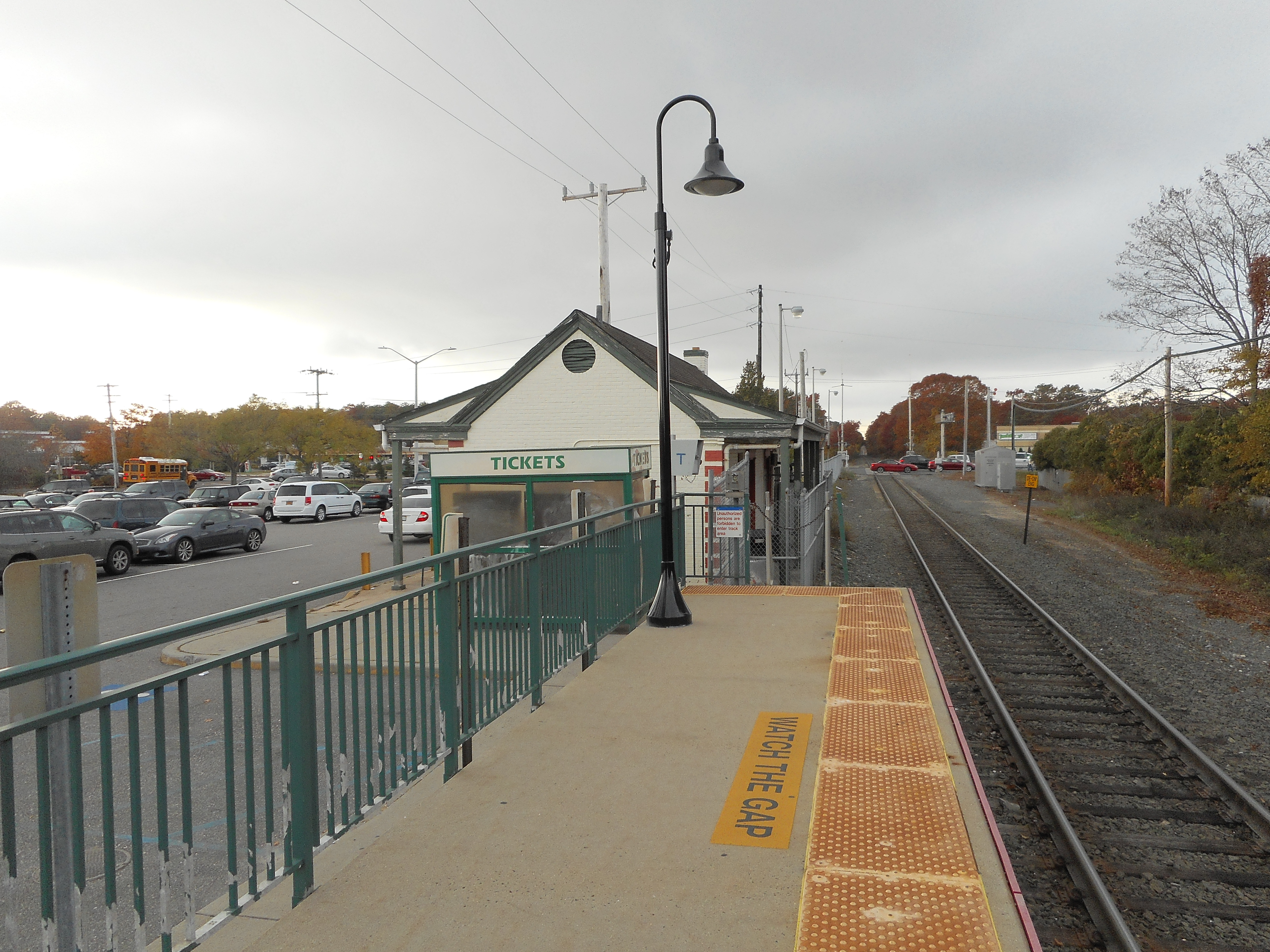 Westbound view of the platform at the Mastic-Shirley Long Island Rail Road station.